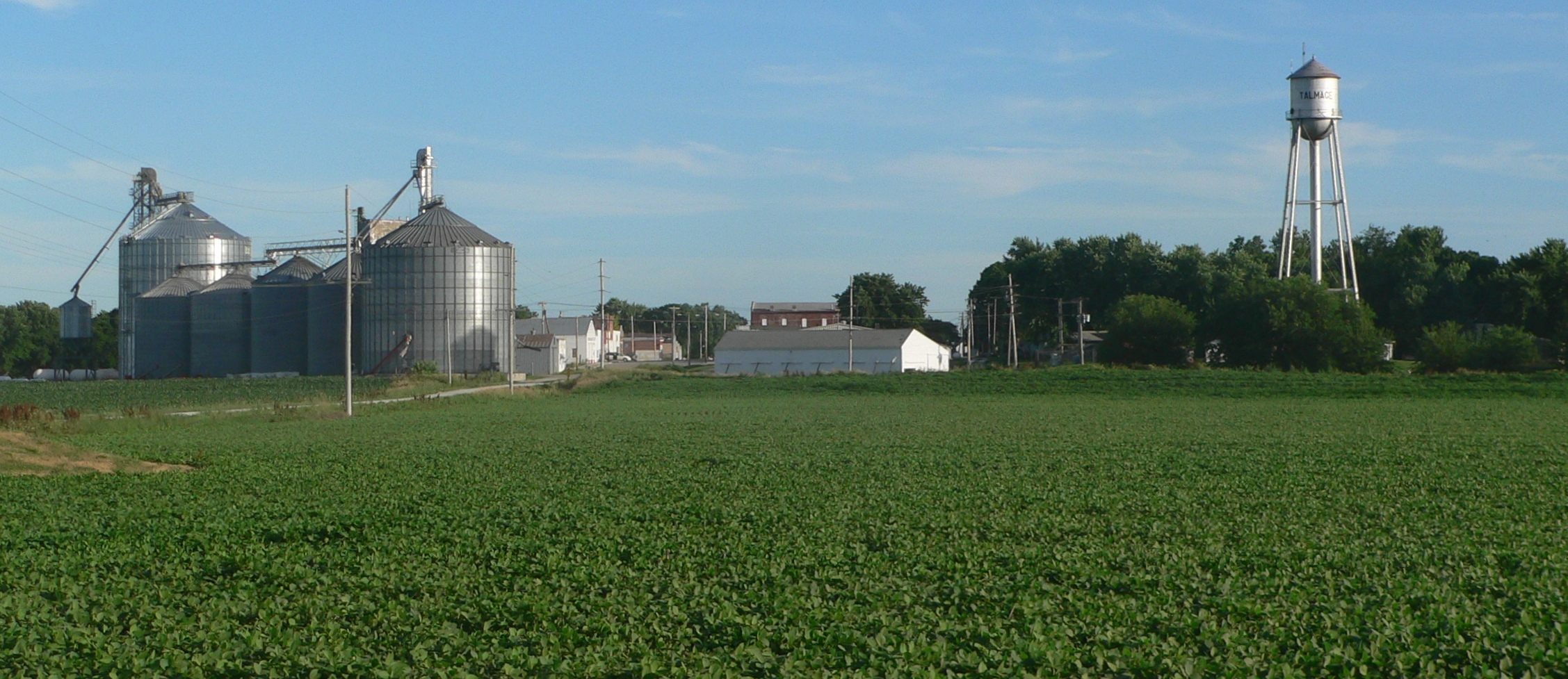 Talmage, Nebraska, seen from the north from county road 738 Rd.